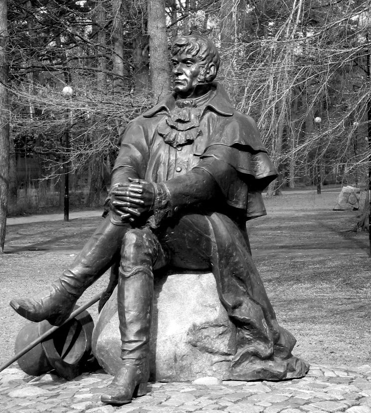 Jean Georg Haffner's monument in Sopot, Poland.